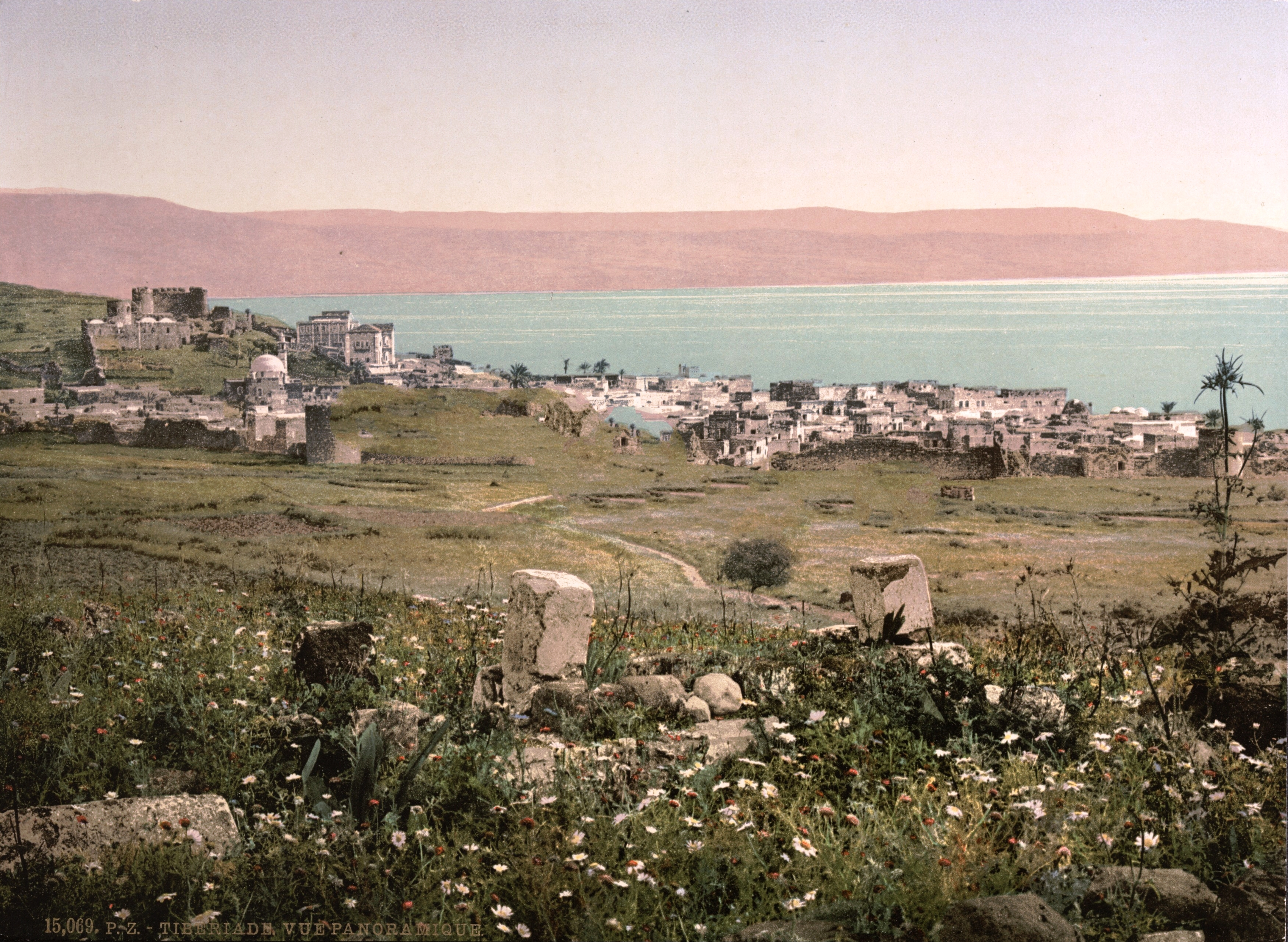 Panoramic view, Tiberias, Holy Land, (i.e., Israel)